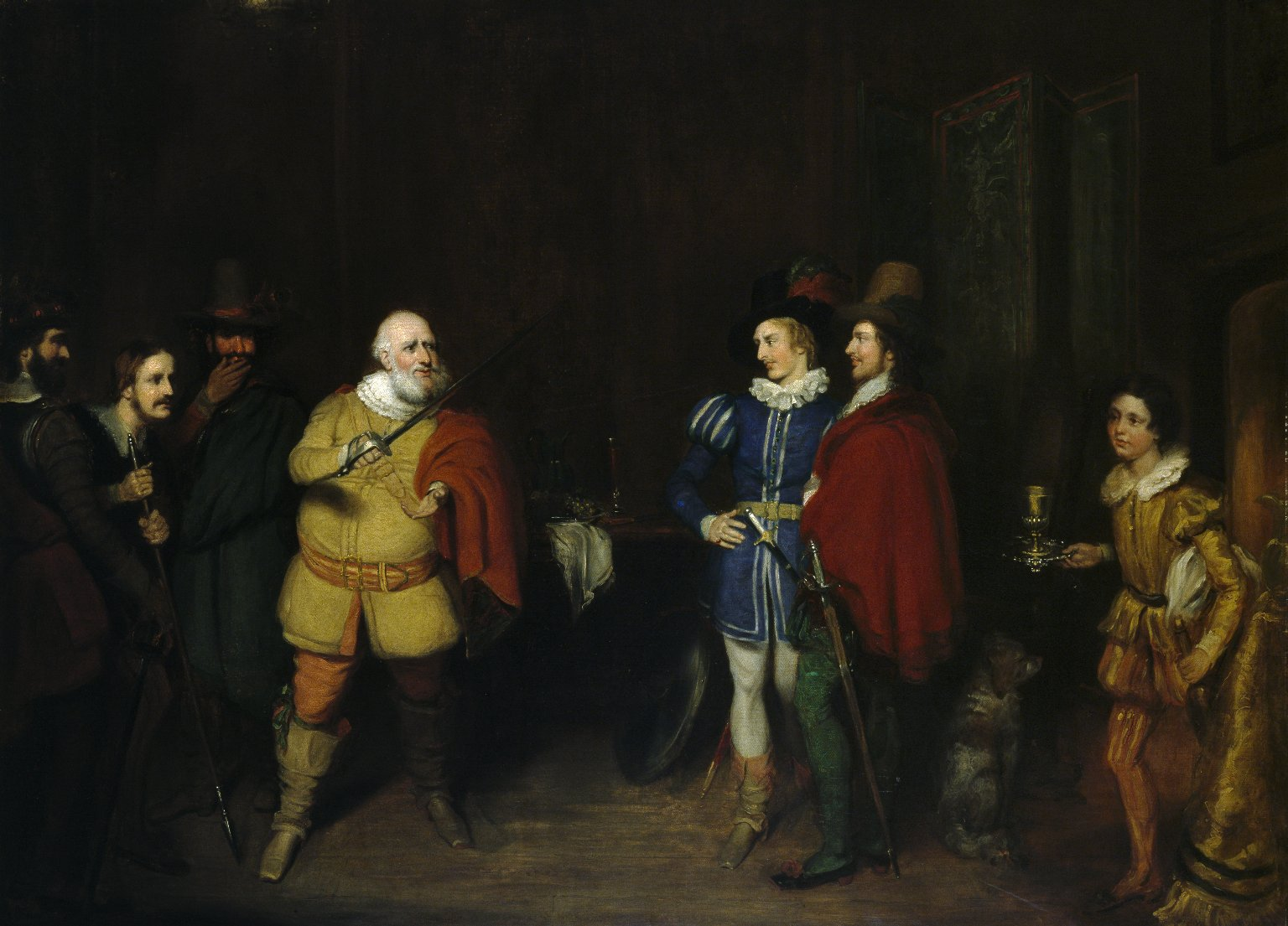 From Act II, Scene IV of William Shakespeare's Henry IV, Part 1